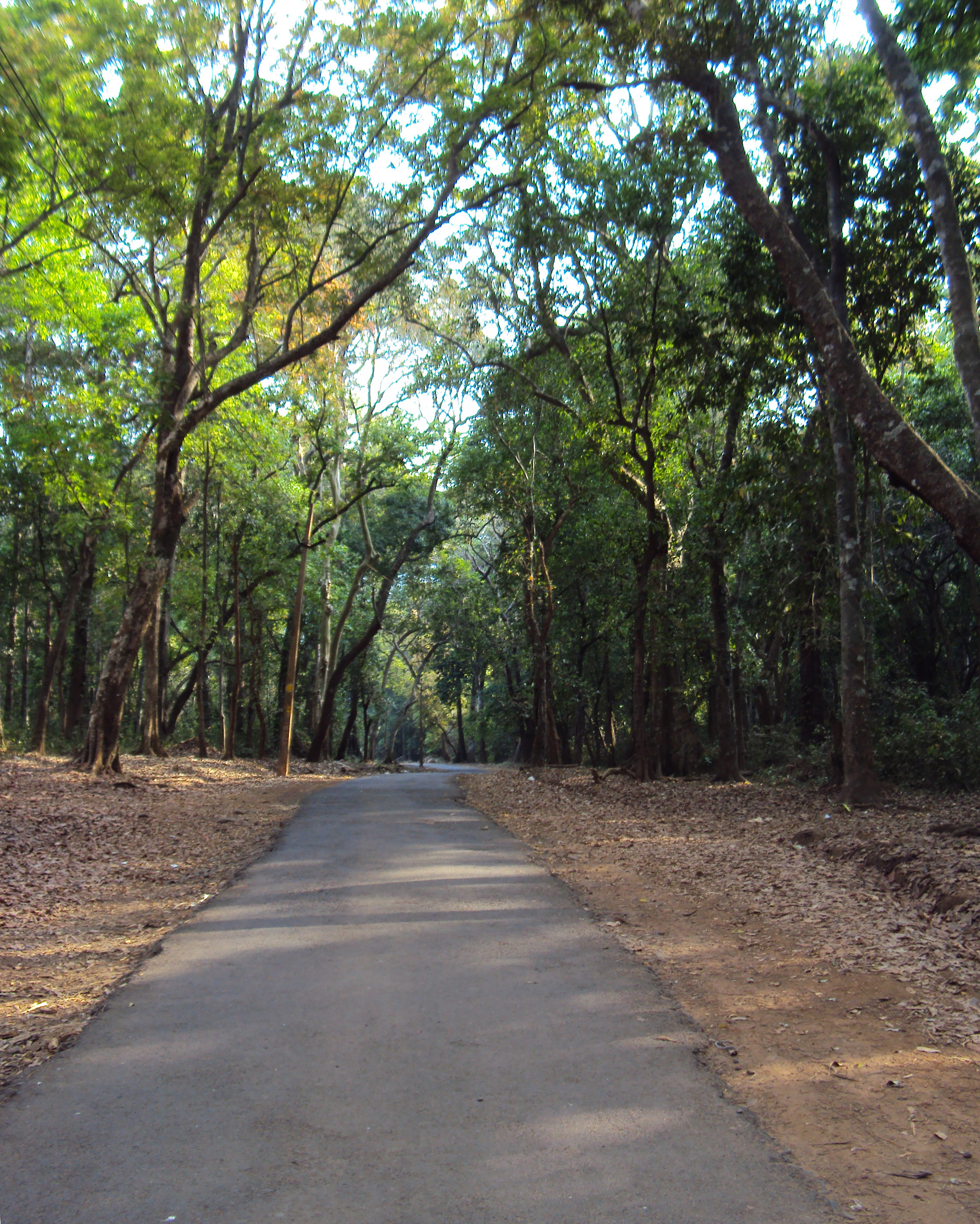 Kannavam - Road to Peruva through forest